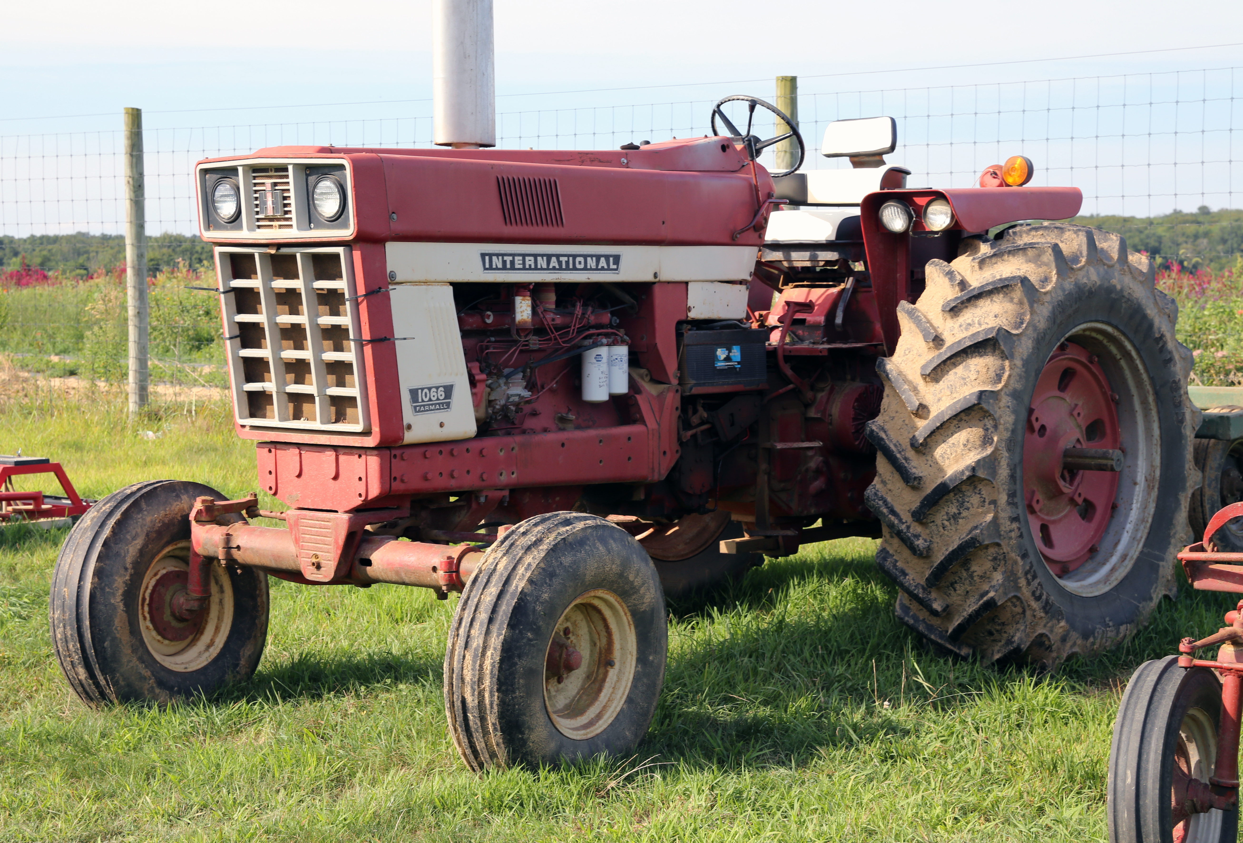 International Harvester Farmall 1066 tractor in Amagansett, NY.